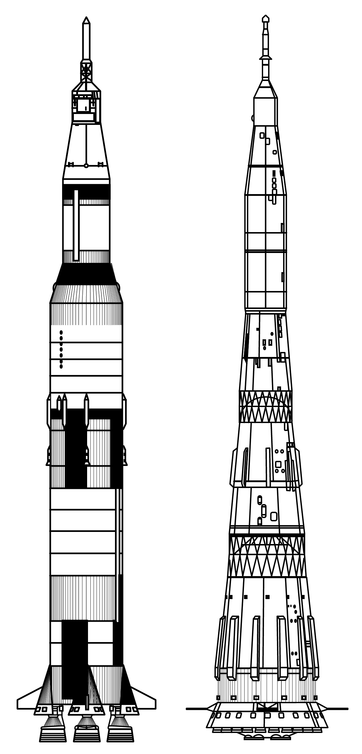 Figure 4-1. Saturn V (left) and N-1 (drawn to scale). Manned Moon rockets.